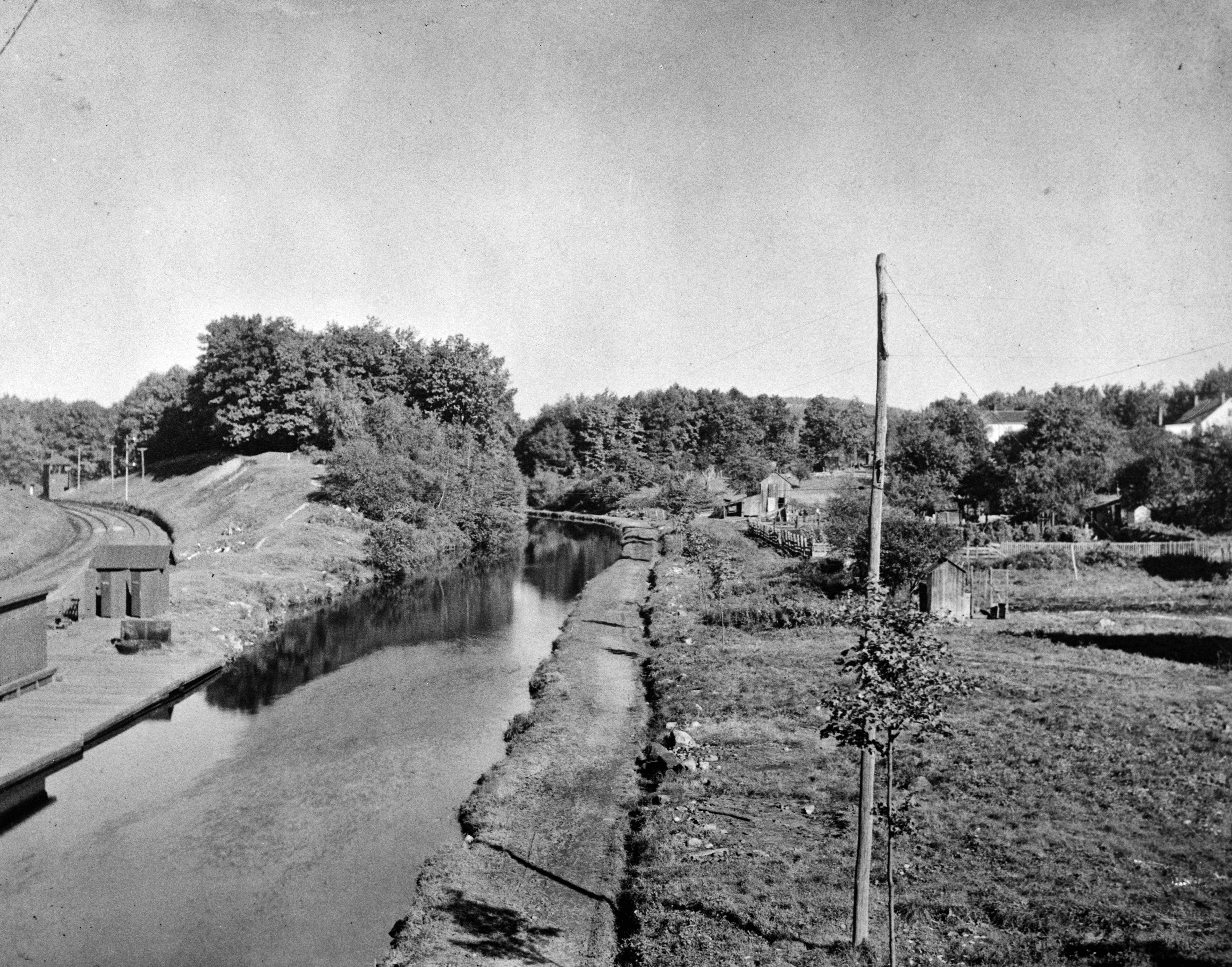 Pic of summit level. HABS says: 48. SUMMIT OF THE MORRIS CANAL, 914 FEET ABOVE MEAN HIGH TIDE AT NEWARK, NEW JERSEY. TRACKS OF THE D, L & W RAILROAD CAN BE SEEN AT LEFT. EDGE OF THE LAKE HOPATCONG STATION IS ALSO VISIBLE AT LEFT. PASSENGERS AND FREIGHT COULD BE TRANSFERRED TO SMALL BOATS FOR TRANSPORT THROUGH THE FEEDER CANAL TO LAKE HOPATCONG. - Morris Canal, Phillipsburg, Warren County, NJ